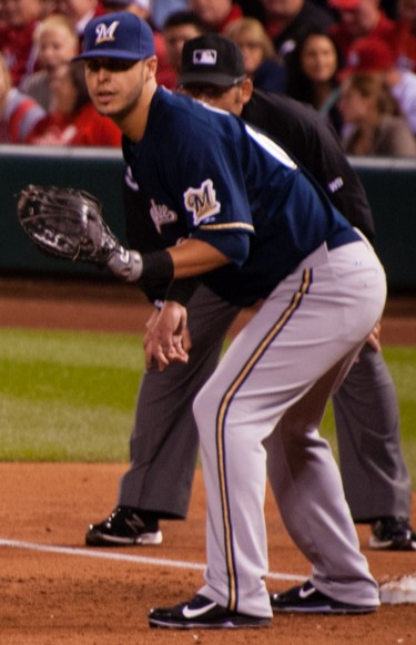 Cardinals vs Brewers 9/16/2014 Busch Stadium III, St Louis